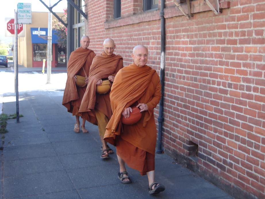 Ajahn Pasanno, Ajahn Karuṇadhammo, and Ajahn Ñāniko walking in Ukiah, accepting offerings of alms food, Full Moon Observance Day, Sept. 19, 2013